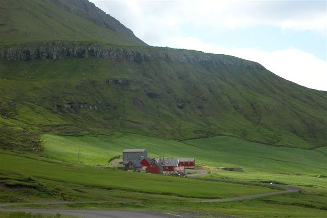 Syðradalur, Streymoy